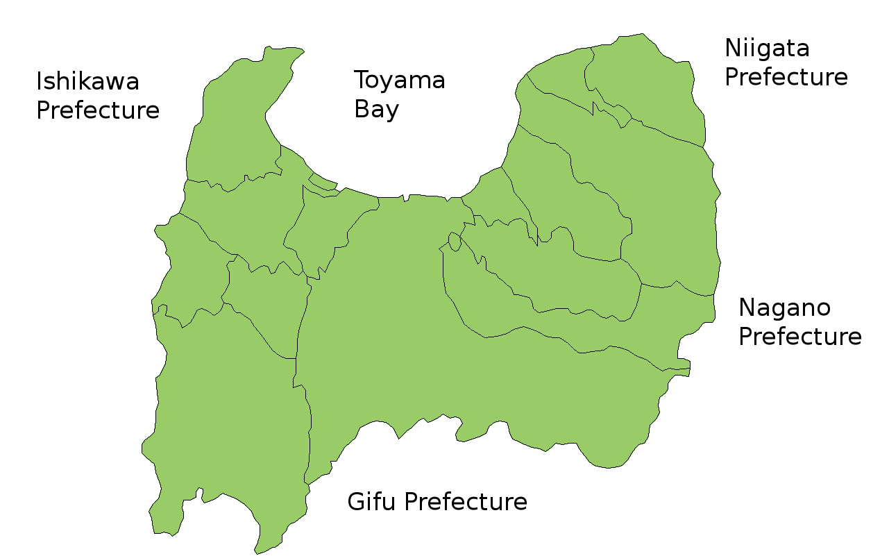 Map of Toyama Prefecture, Japan. Thanks to Aoki Shigenobu and [1]. Colors from Image:TokyoMapCurrent.png by User:Fg2.